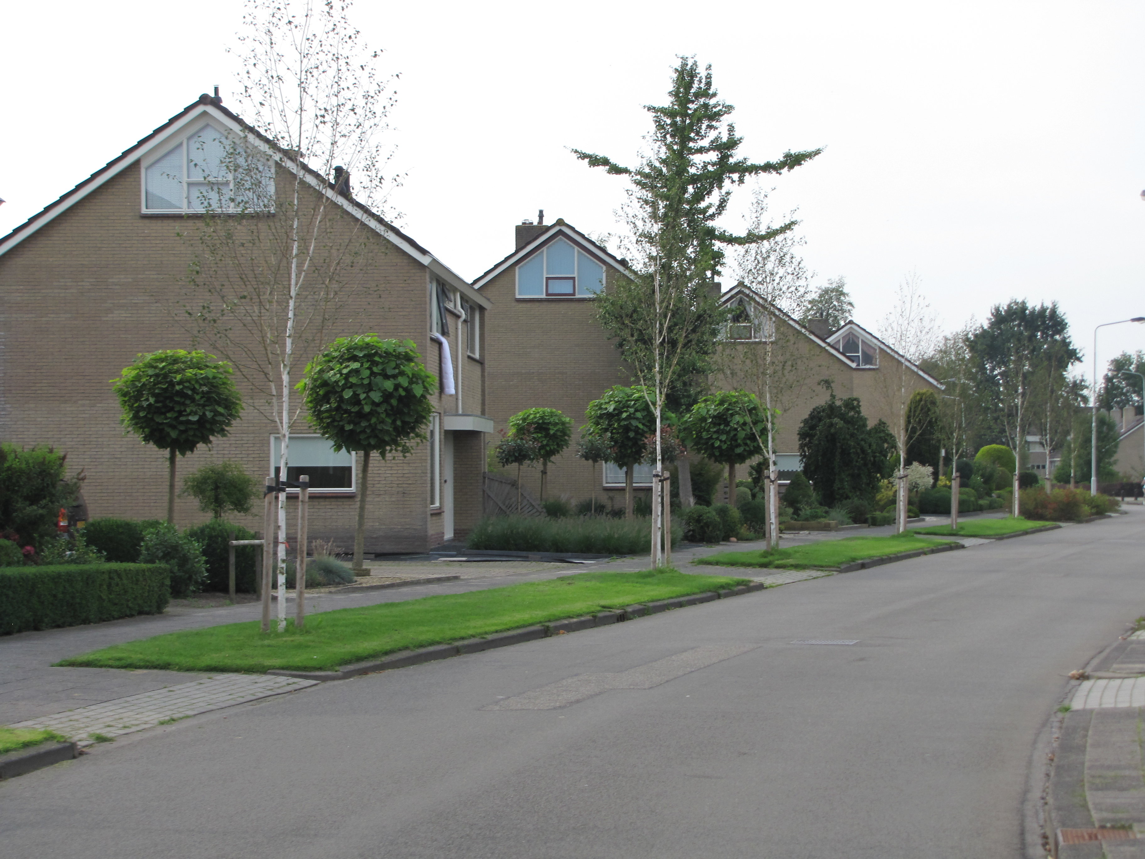 Town of Joure, Westermeer, street of De Finne